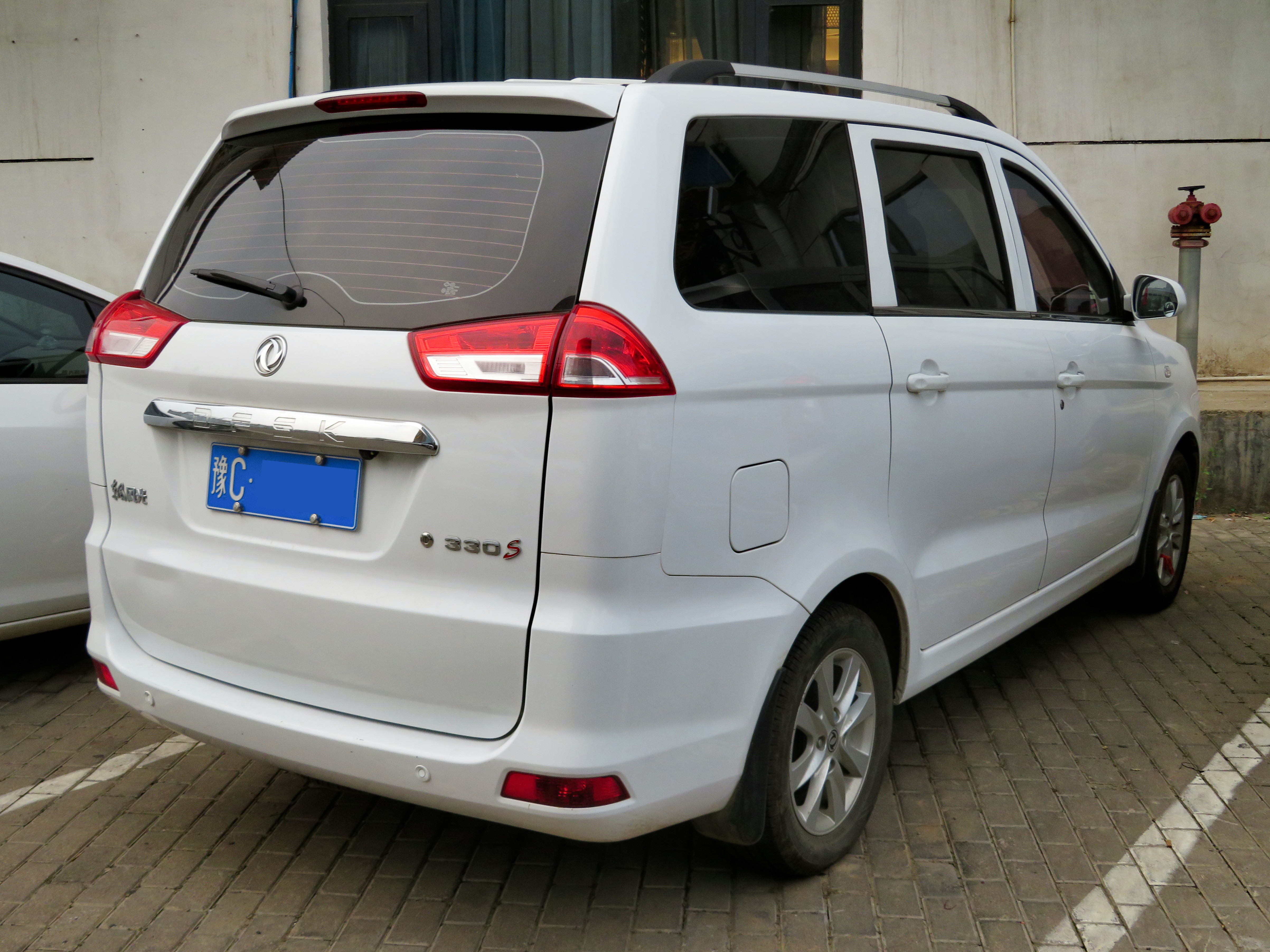 A 2018 Dongfeng-Fengguang 330S photographed in Xigong District, Luoyang, Henan province, China